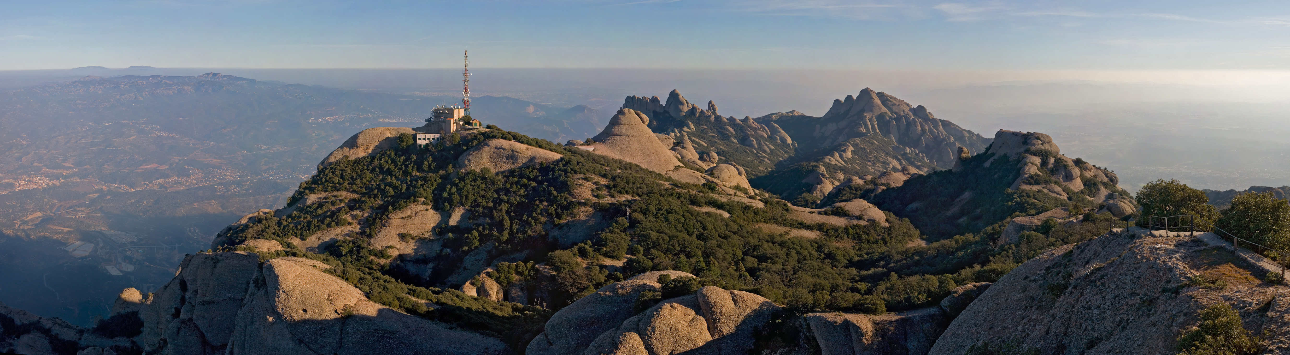 A panoramic view from St Jerome at 1236 metres above sea level on the mountains of Montserrat in Catalonia, Spain. Taken with a Canon 5D and 70-200mm f/2.8L lens. This is a multi segment panorama.